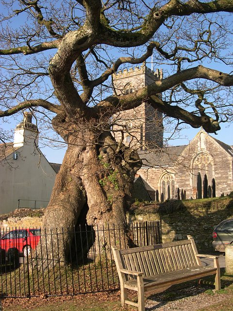 The Meavy Oak. Historical records suggest that this oak tree on Meavy village green dates back to the time of King John. Scientific studies have concluded that the tree is probably at least 950 years old.